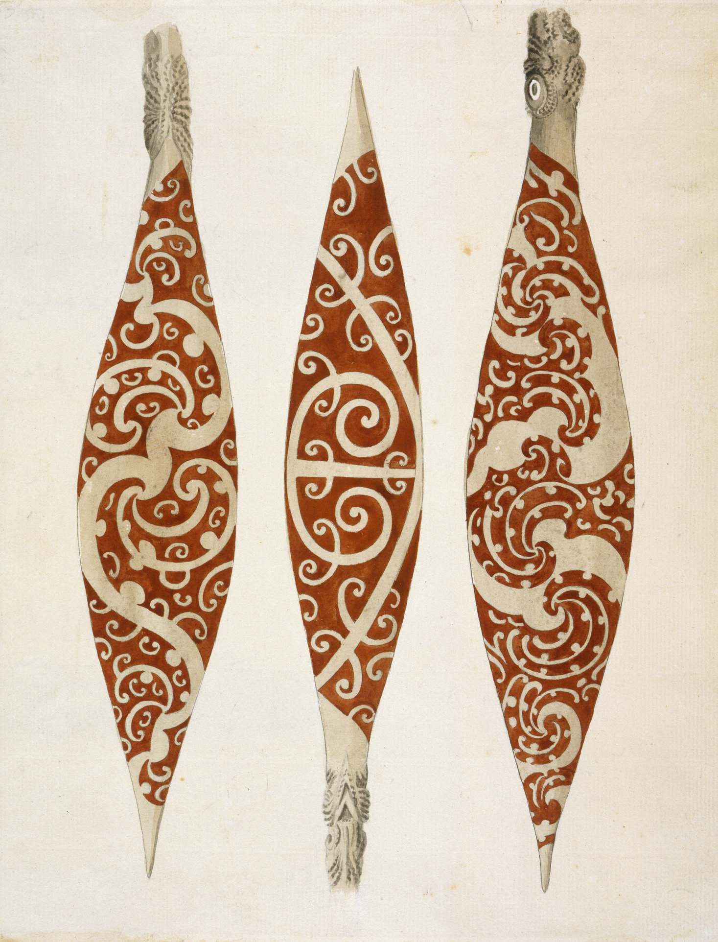 Three paddles from New Zealand [Upper drawing] Three paddles from New Zealand. Described in Joseph Banks's journal, 12 October 1769